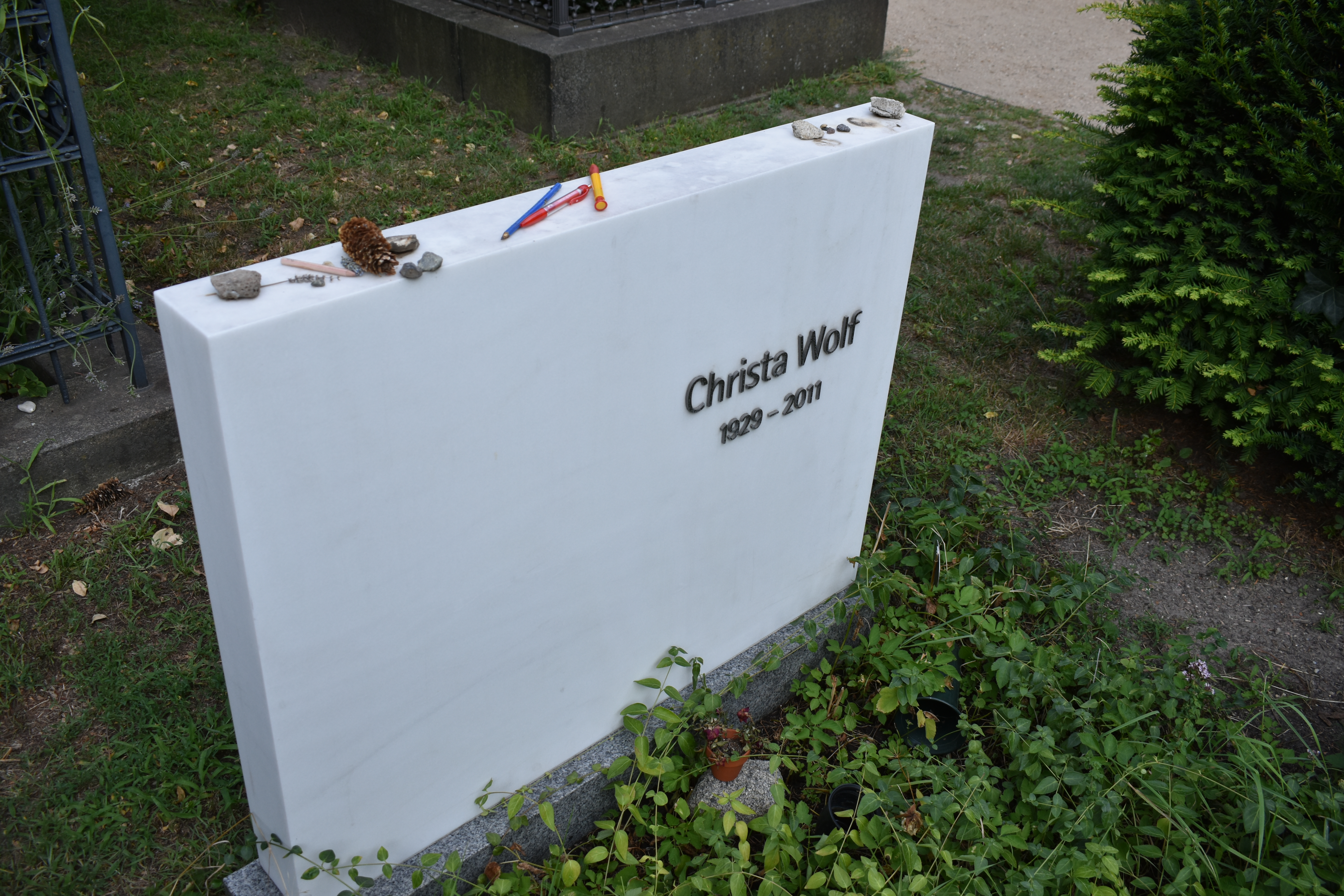 Grave of German author Christa Wolf in Berlin, July 2019. Visitors have left pens on her grave in remembrance of her life's work.